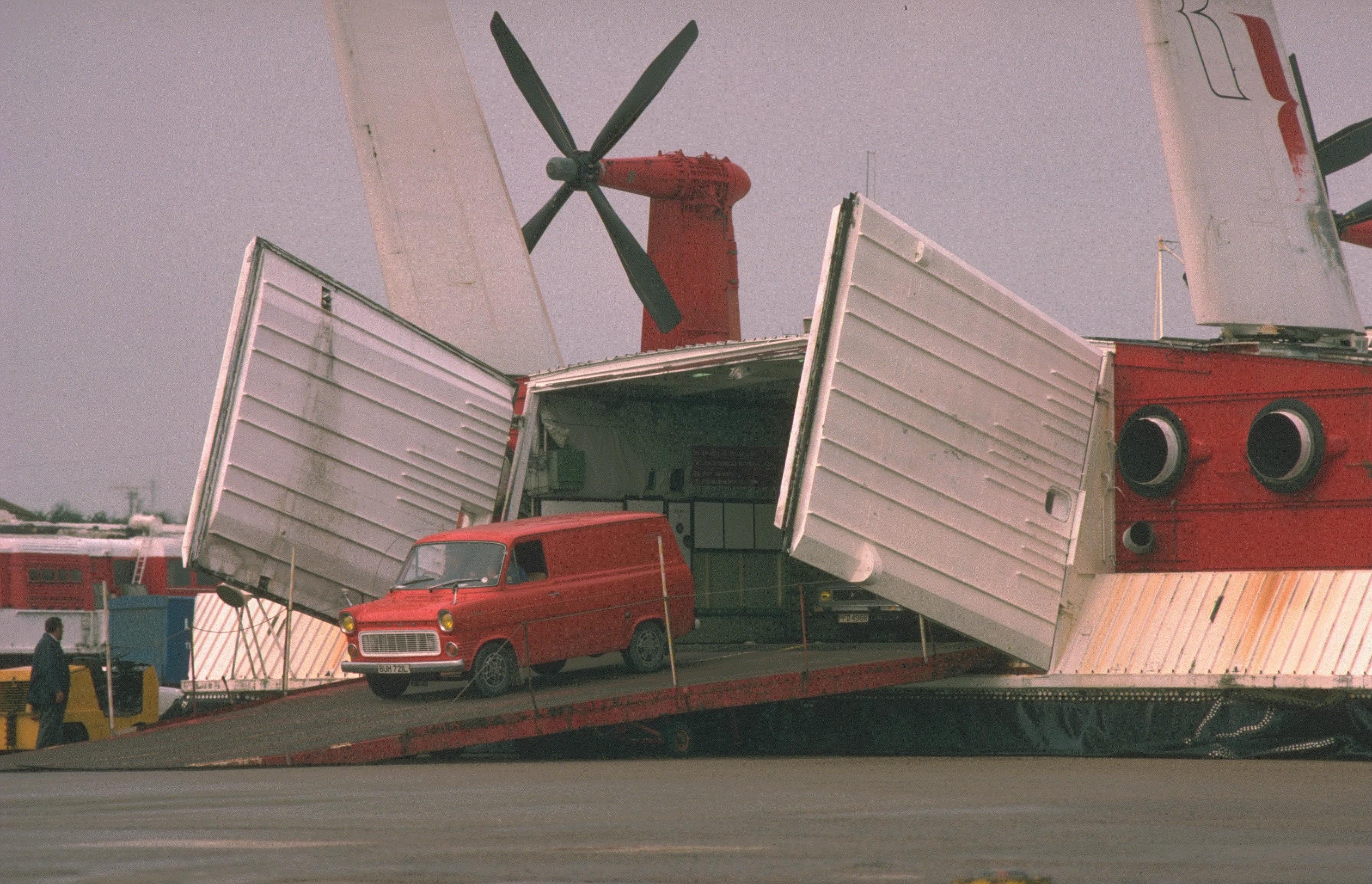 Saunders Roe Nautical 4 Hovercraft "Sir Christopher" unloading in Calais, France.